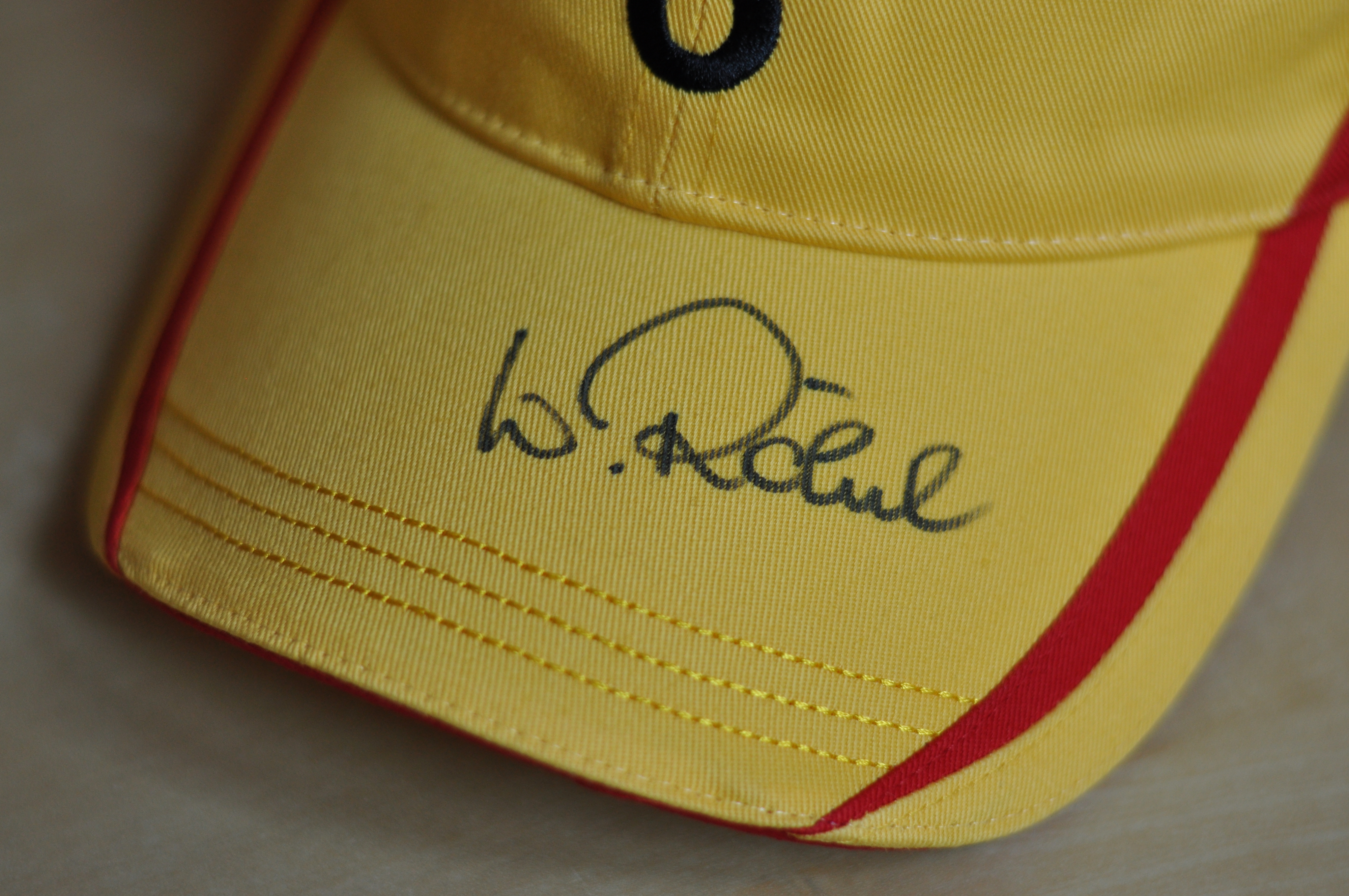 Walter Roehrl autograph on a Porsche Design Driver's Selection cap.